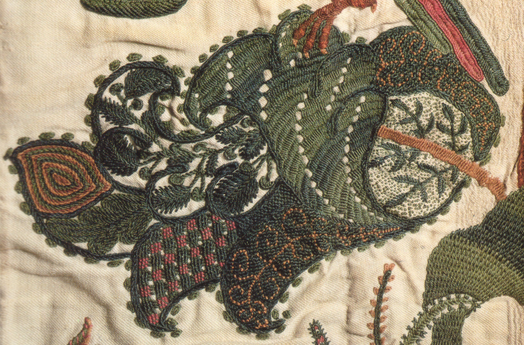 Detail of a fanciful leaft in crewel embroidery on a curtain, c. 1696, Victorian & Albert Museum T.166-1961